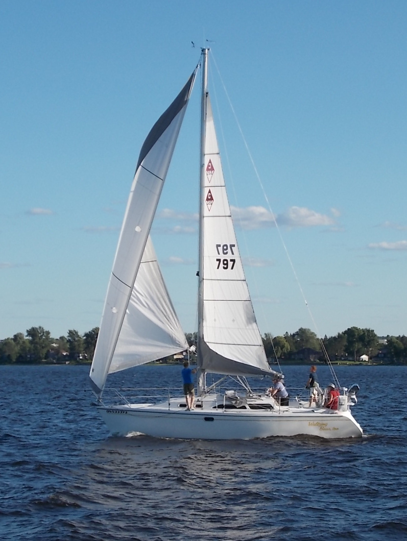 Catalina 320 sailboat Eriador on Lac Deschênes, part of the Ottawa River, Ottawa, Ontario, Canada